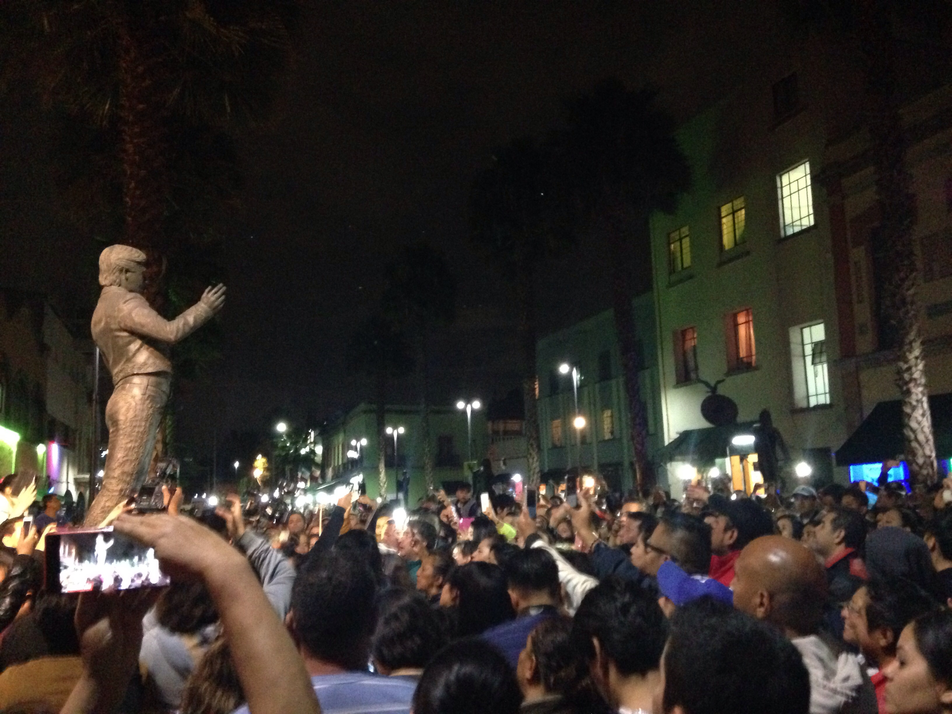 People congregated at Juan Gabriel sculpture paying tribute on the day of his death. Plaza Garibaldi, Mexico City, .